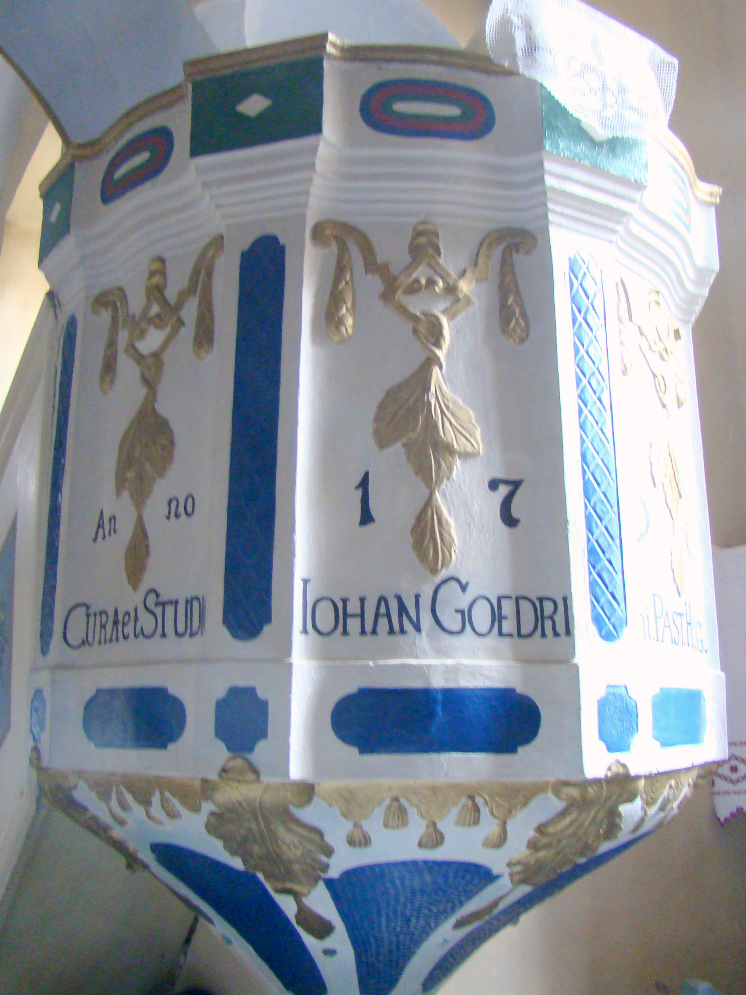 Lutheran church in Satu Nou, Brașov County, Romania